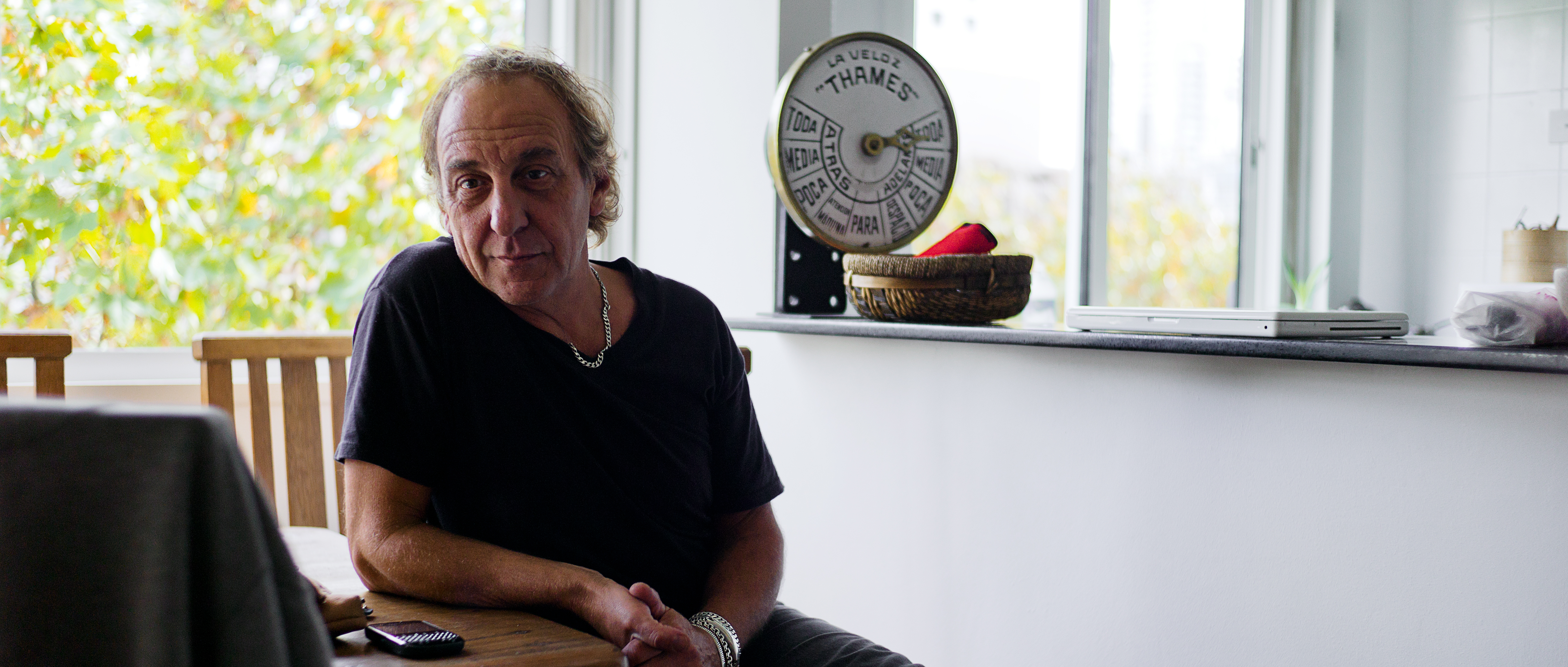 A portrait of the Argentinian film composer Osvaldo Montes.